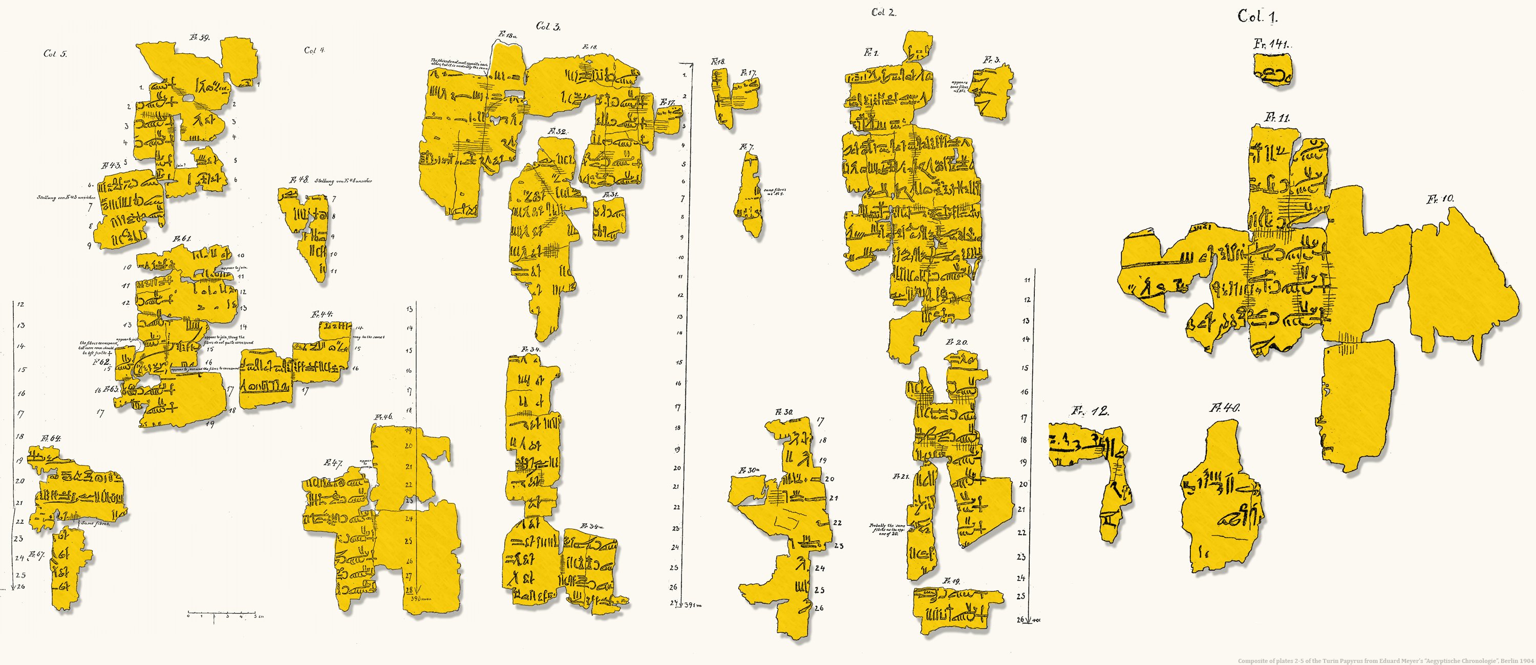 The Turin Papyrus composite and colored from plates 2-5 o the 1904 book "Aegyptische Chronologie" by Eduard Meyer.